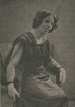 Danish baroness, writer, journalist and feminist Olga Eggers (1875-1945)